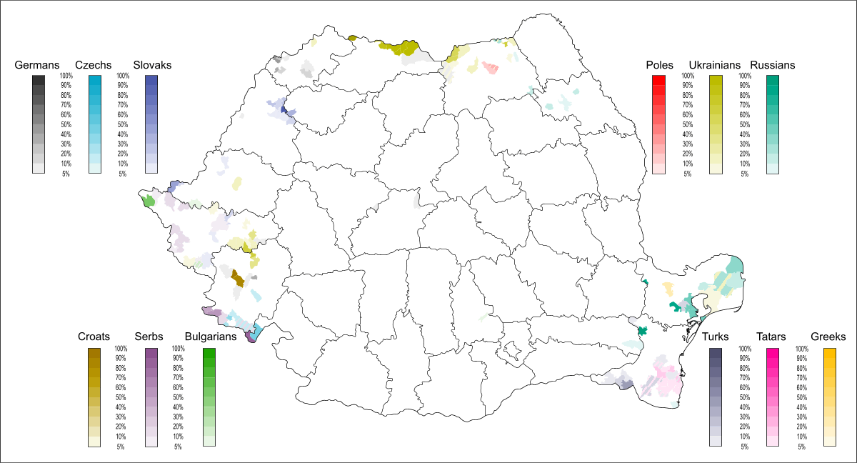 Lesser minorities of Romania with significant representation at commune level (Excluding Hungarian and Roma minorities and Romanian majority)